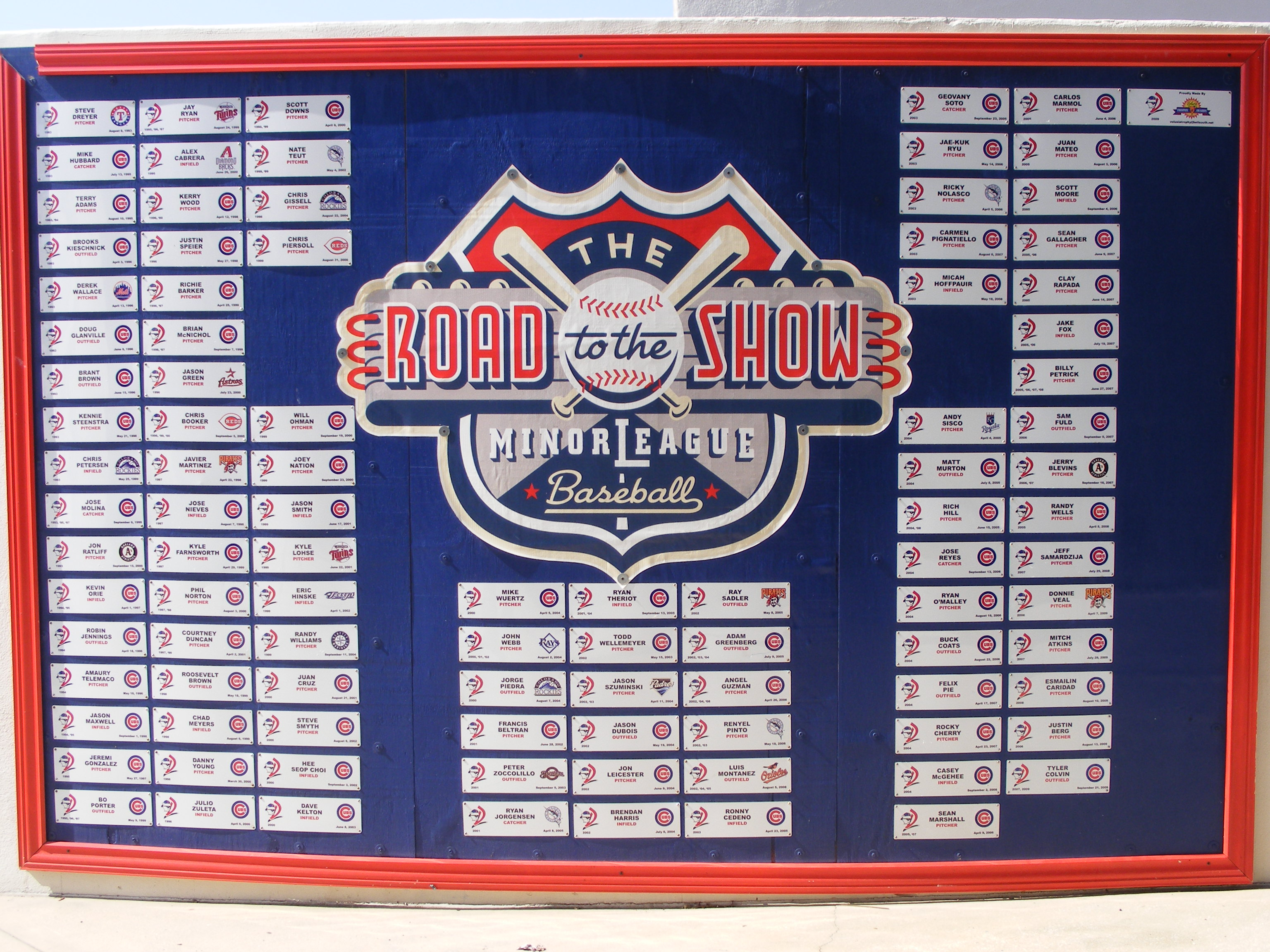 A wall plaque inside Jackie Robinson Ballpark, Daytona Beach, Florida. The plaque recognizes the sportsmen who originally started out playing Minor League Baseball at the stadium and eventually rose to play in the Majors.